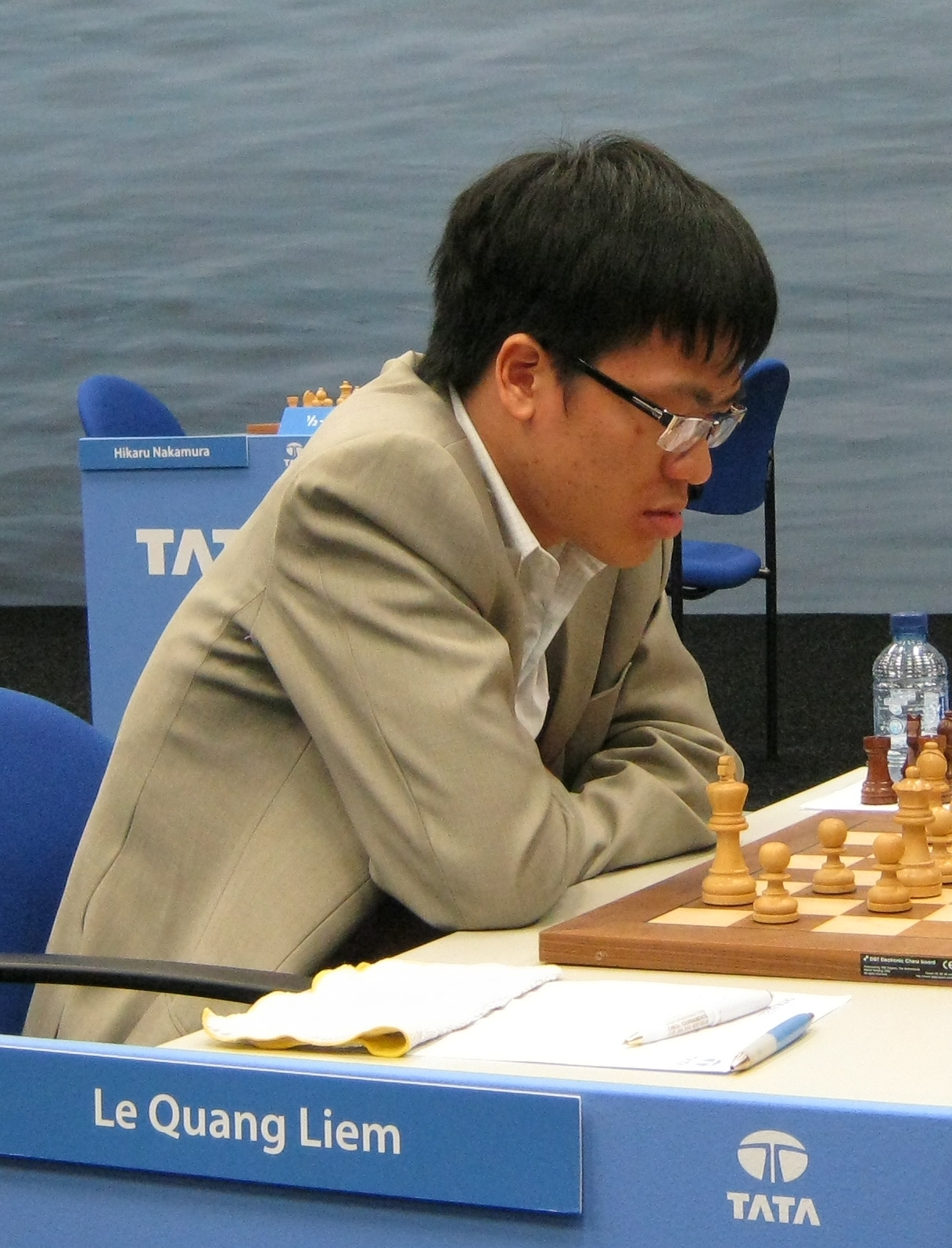 Lê Quang Liêm, chess grandmaster from Vietnam